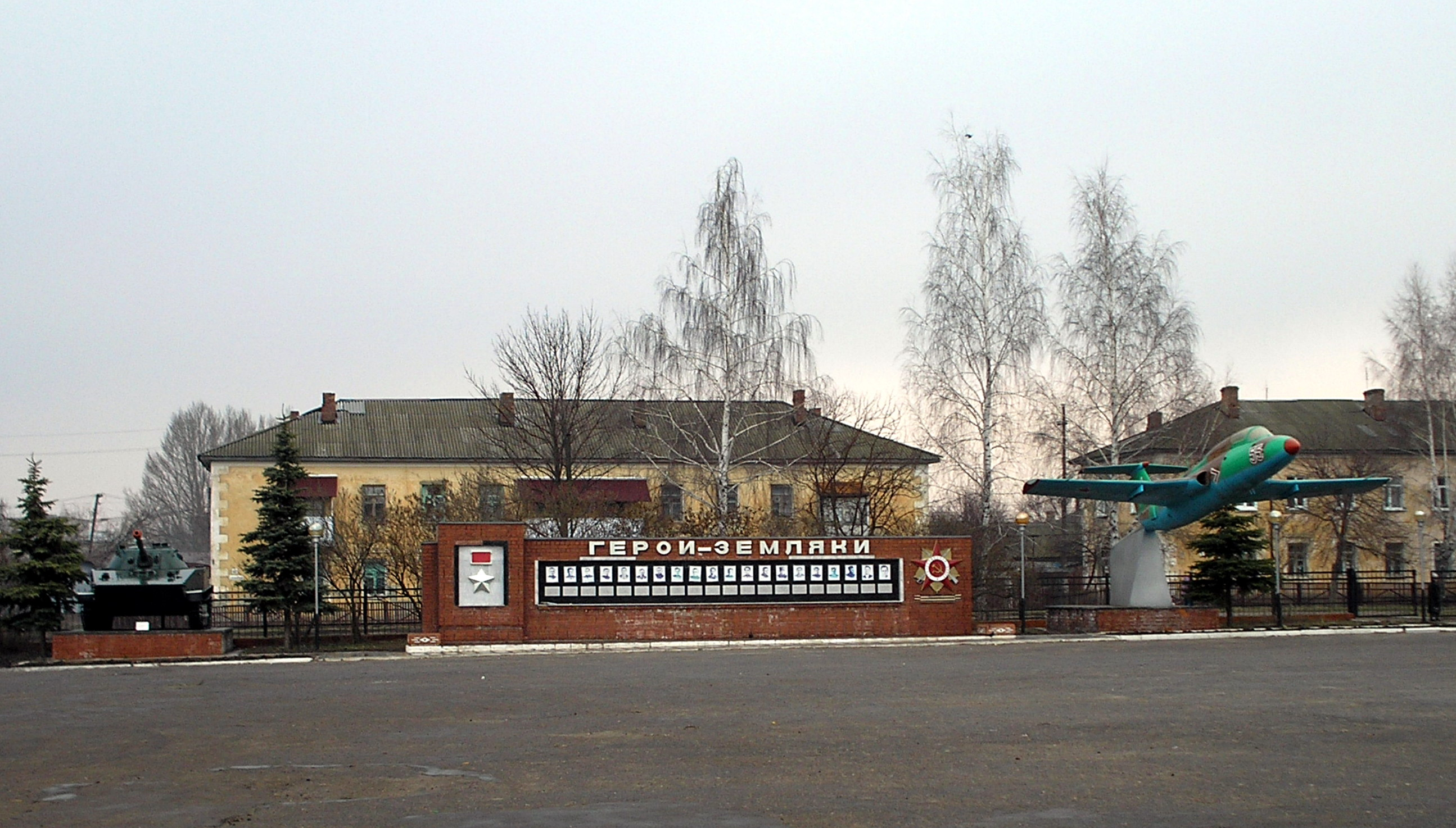 Rtishchevo. Memorial to the soldiers who have fallen in days of the Great Patriotic War